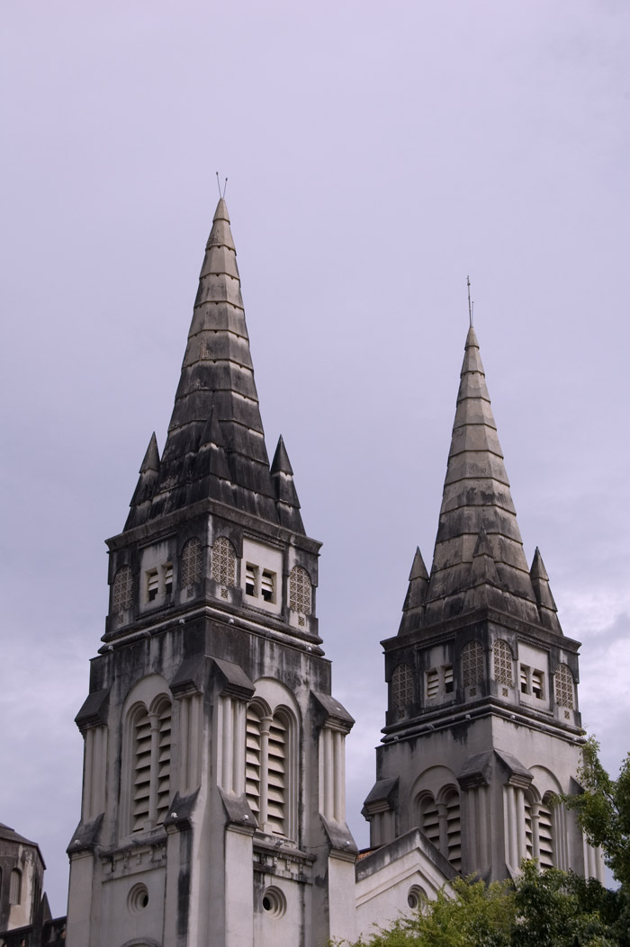 Metropolitan Cathedral of Fortaleza (4).png